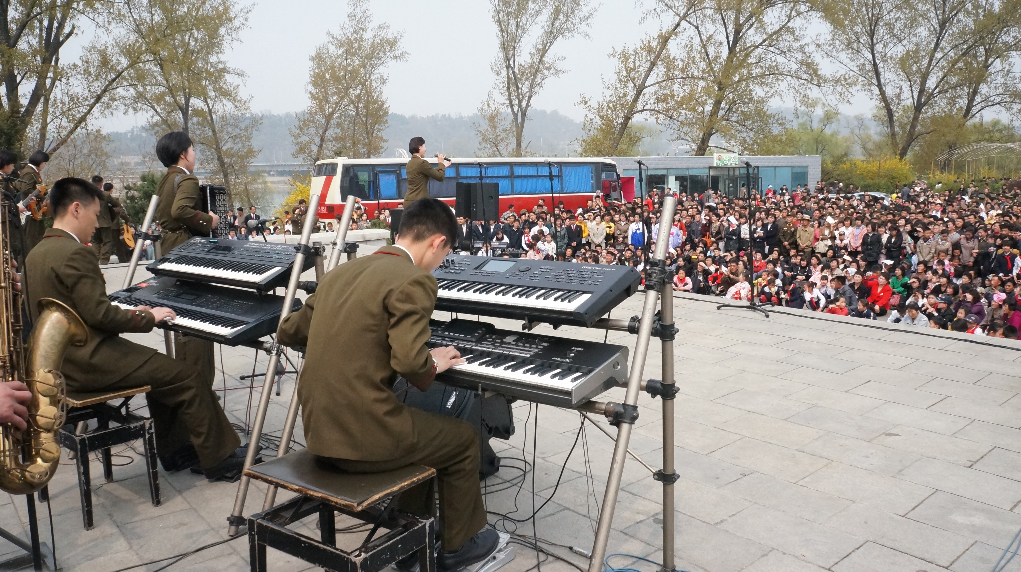 Kim Il Sung Birthday Celebrations April 15, 2014